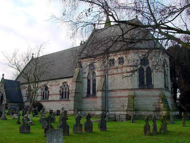 All Saints' parish church, Denstone, Staffordshire, seen from the east